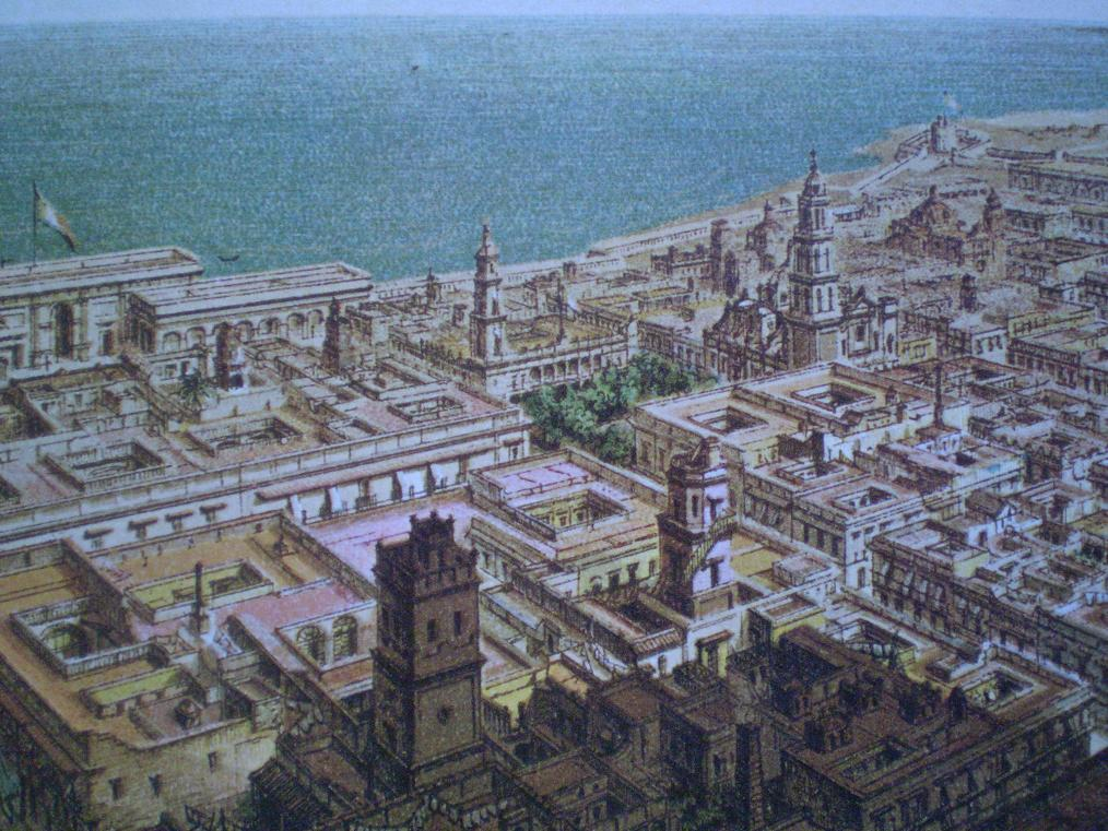 .Picture from the "Album of the Mexican Railway". Pictues by Casimiro Castro. Text by: Antonio Garcia Cubas. Published by Víctor Debray. Year: 1877 Bilanguage edition english and spanish.